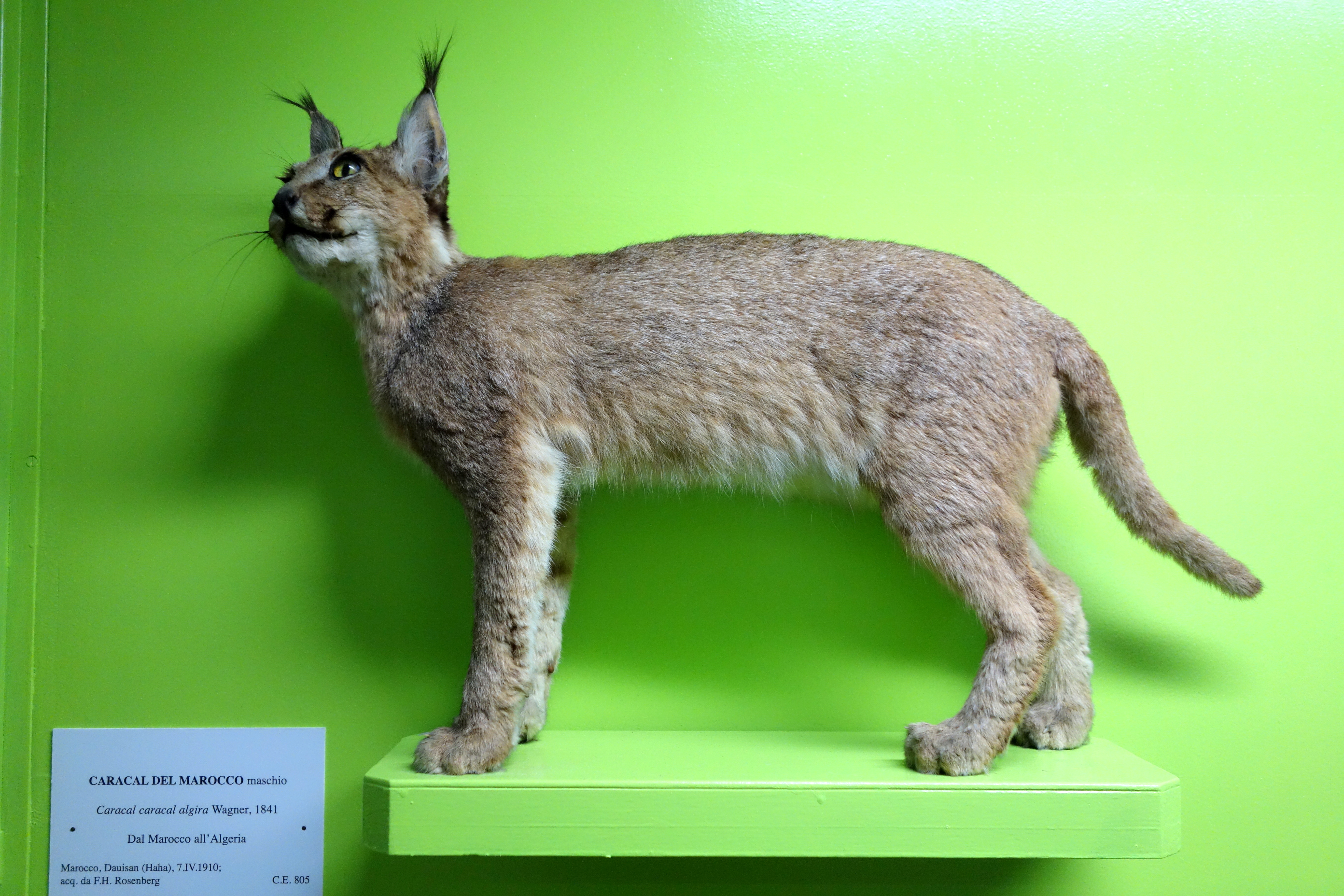 Exhibit in the Museo Civico di Storia Naturale di Genova, Via Brigata Liguria, 9, 16121, Genoa, Italy.